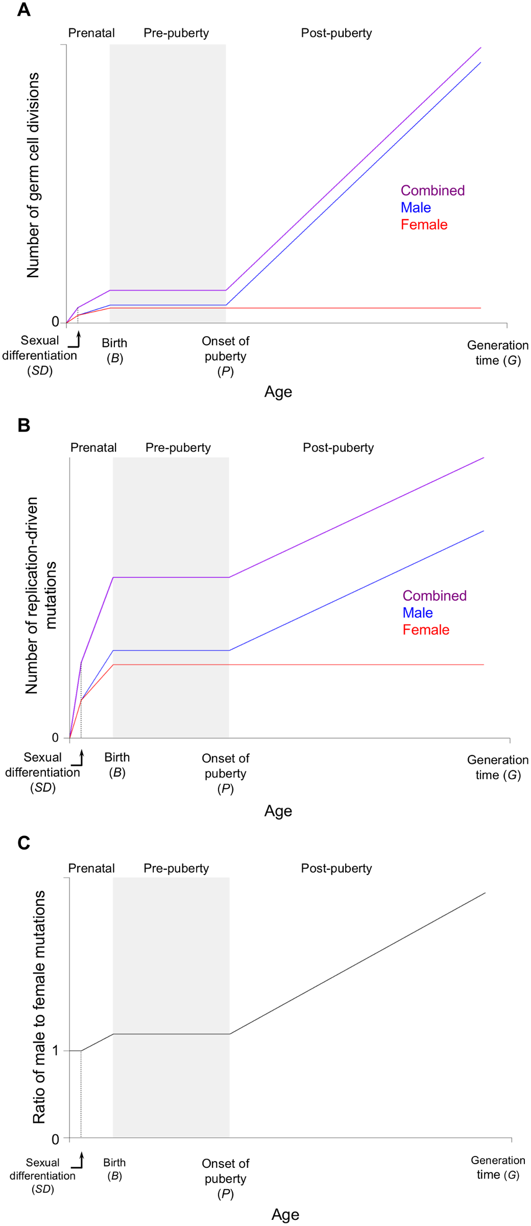 The accumulation of replication-driven mutations with sex and age. (A) An illustration of the increase in the number of germ cell divisions with age in humans. For legibility, the plot is not exactly to scale and the final four cell divisions in males needed to complete spermatogenesis are not shown. The origin is the time of fertilization, and SD, B, P, and G are the times of sexual differentiation, birth, onset of puberty, and reproduction (i.e., generation time), respectively. (B) The increase in the number of mutations due to replication errors with sex and age. (C) The ratio of mutations that occurred in the male versus the female germline (the “male bias”) as a function of increasing parental age.